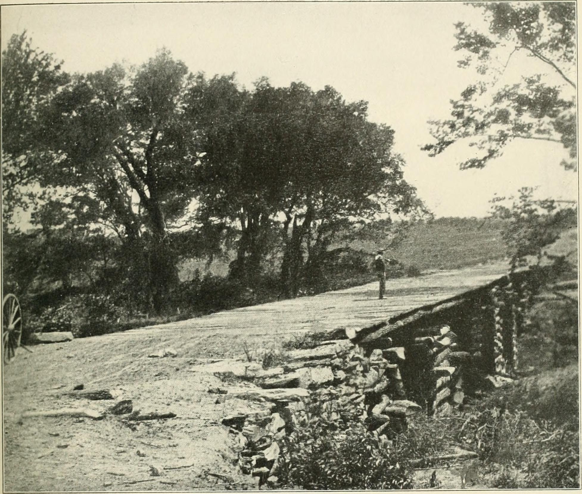 Title: The photographic history of the Civil War : thousands of scenes photographed 1861-65, with text by many special authorities Year: 1911 (1910s) Authors: Miller, Francis Trevelyan, 1877-1959 Lanier, Robert S. (Robert Sampson), 1880- Subjects: United States -- History Civil War, 1861-1865 Pictorial works United States -- History Civil War, 1861-1865 Publisher: New York : Review of Reviews Co. Text Appearing Before Image: ' Text Appearing After Image: COPTRIGmT 9* PATRIOT PUB. CO. THE ADVANCE THAT BECAME A RETREAT The Stone Bridge across Bull Run. When the Federal army silently put Bull Run between itself and Leeon the night of August 30, 1862, Popes attempt to capture Richmond was turned into a Confederate ad-vance upon Washington. Lee, on discovering Popes position at Centreville on the next day, sent Stone-wall Jackson to turn the Federal right. Crossing Bull Run at Sudley Ford, Jackson advanced along acountry road till he reached the Little River Turnpike, on which the troops bivouacked for the night. OnSeptember 1st he was met near Chantilly by Reno and Kearney, who had been sent by Pope to intercepthim. A fierce encounter followed in a drenching rainstorm. The brilliant bayonet charge by Birney, incommand of the division of General Phili)) Kearney, who had just fallen, drove back the Confederates,and Birney held the field that night. The next morning orders came from General Halleck for the brokenand demoralized army of Pope